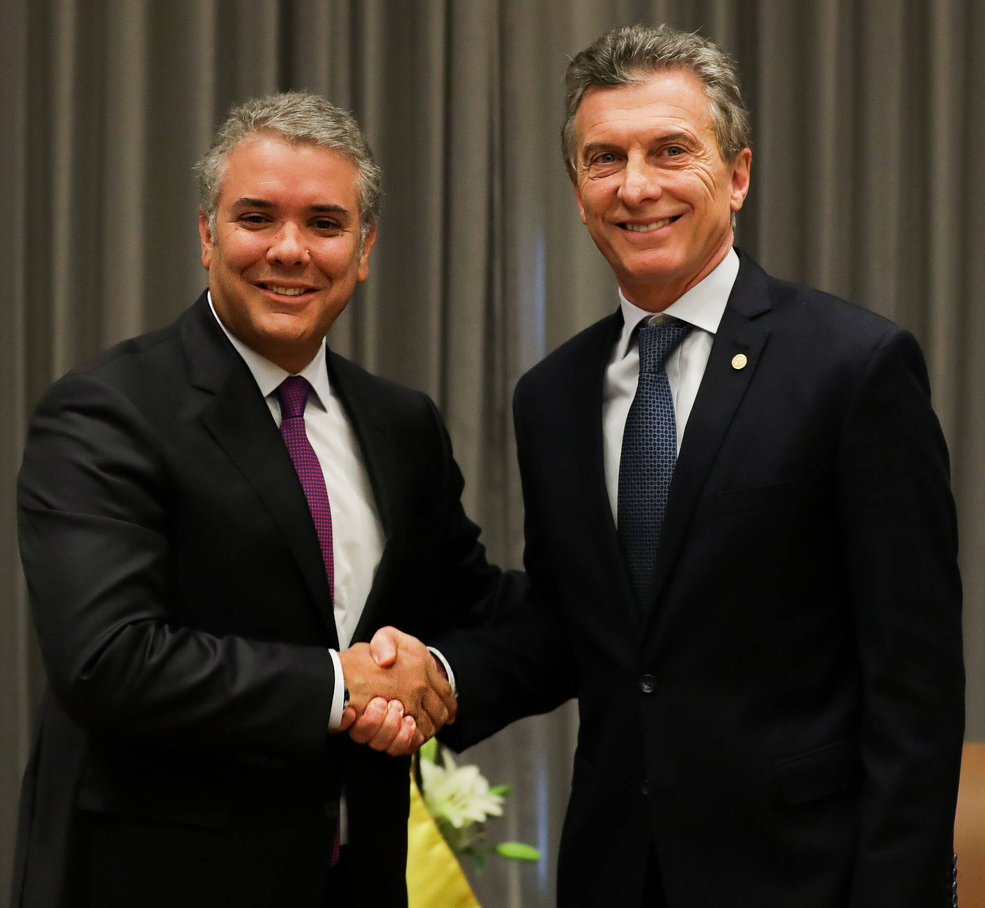 Mauricio Macri with Iván Duque Márquez during the inauguration of Márquez.